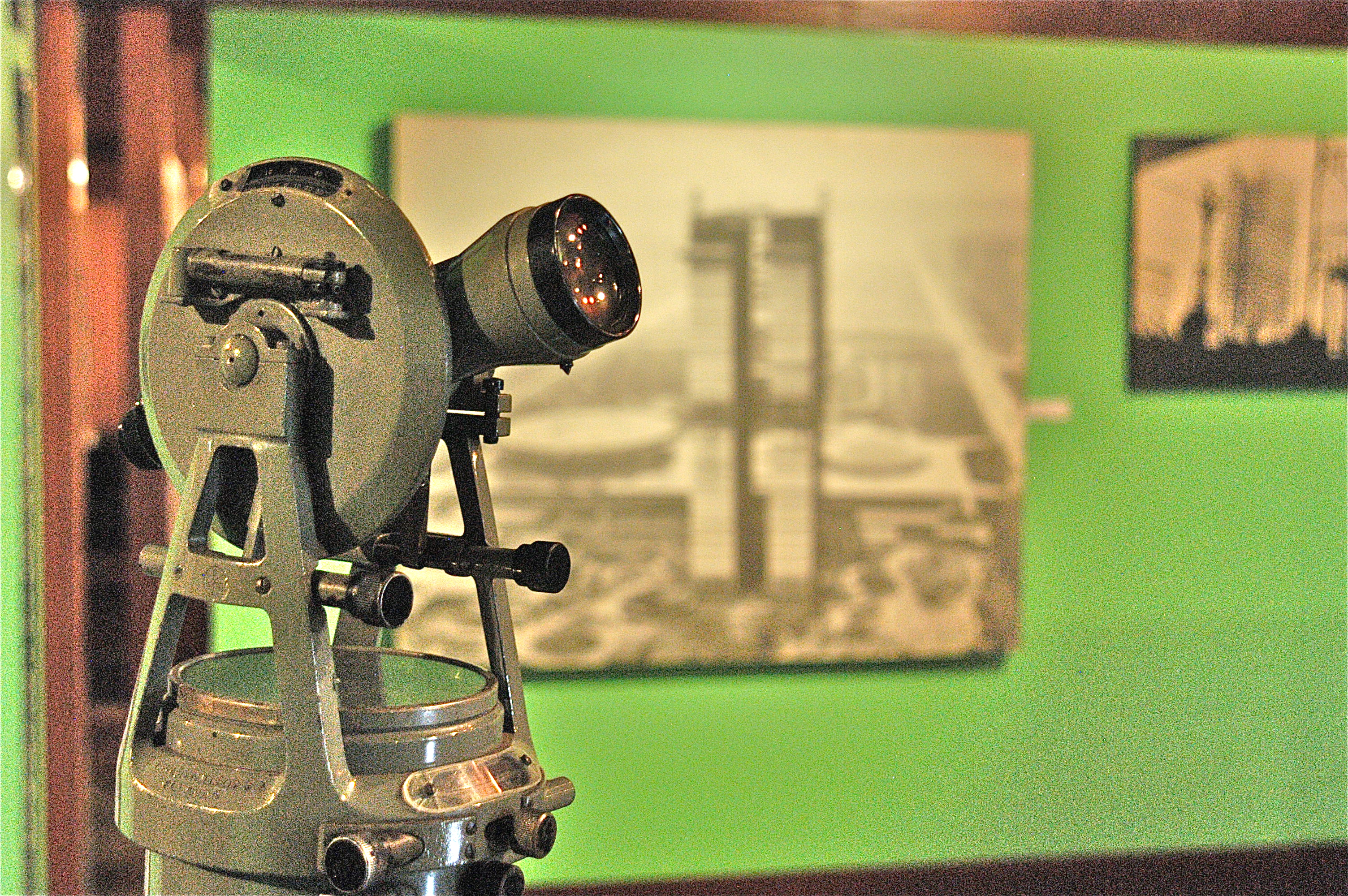 Theodolite in detail